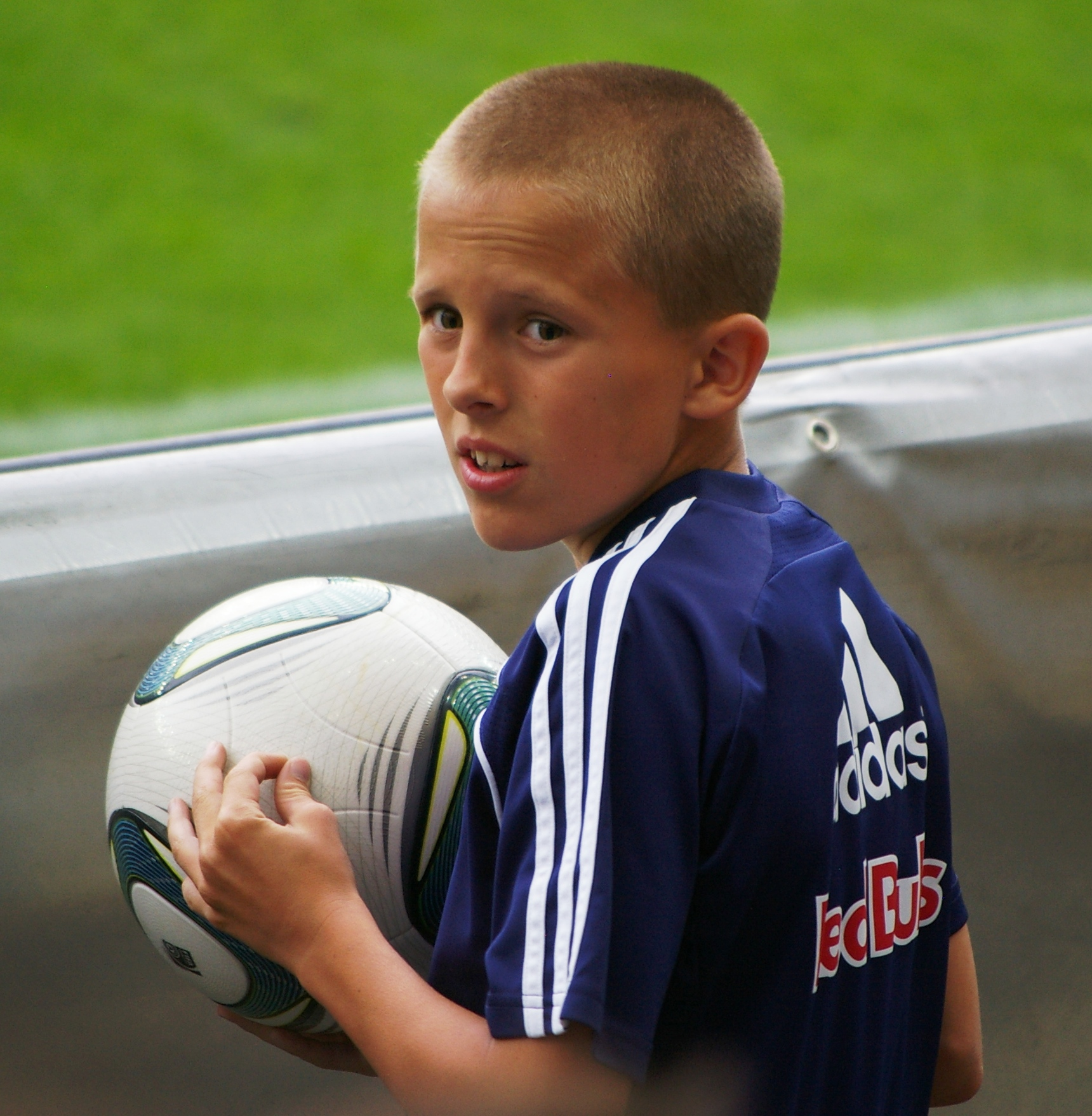 league match